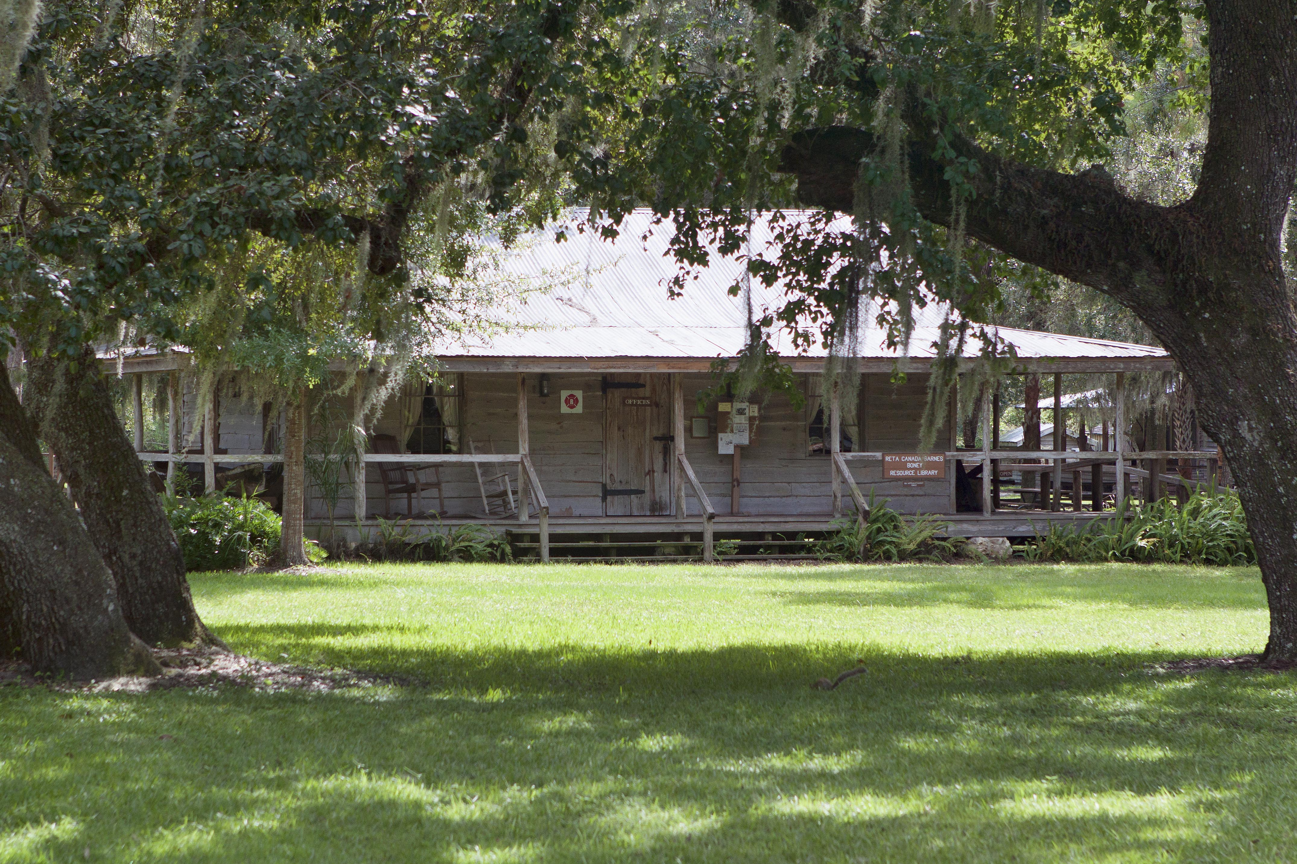 One of the restored Florida Cracker homes open to the public at Fort Christmas Historical Park, Christmas, Florida.